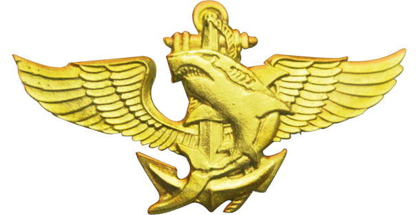 GRUMEC Insignia